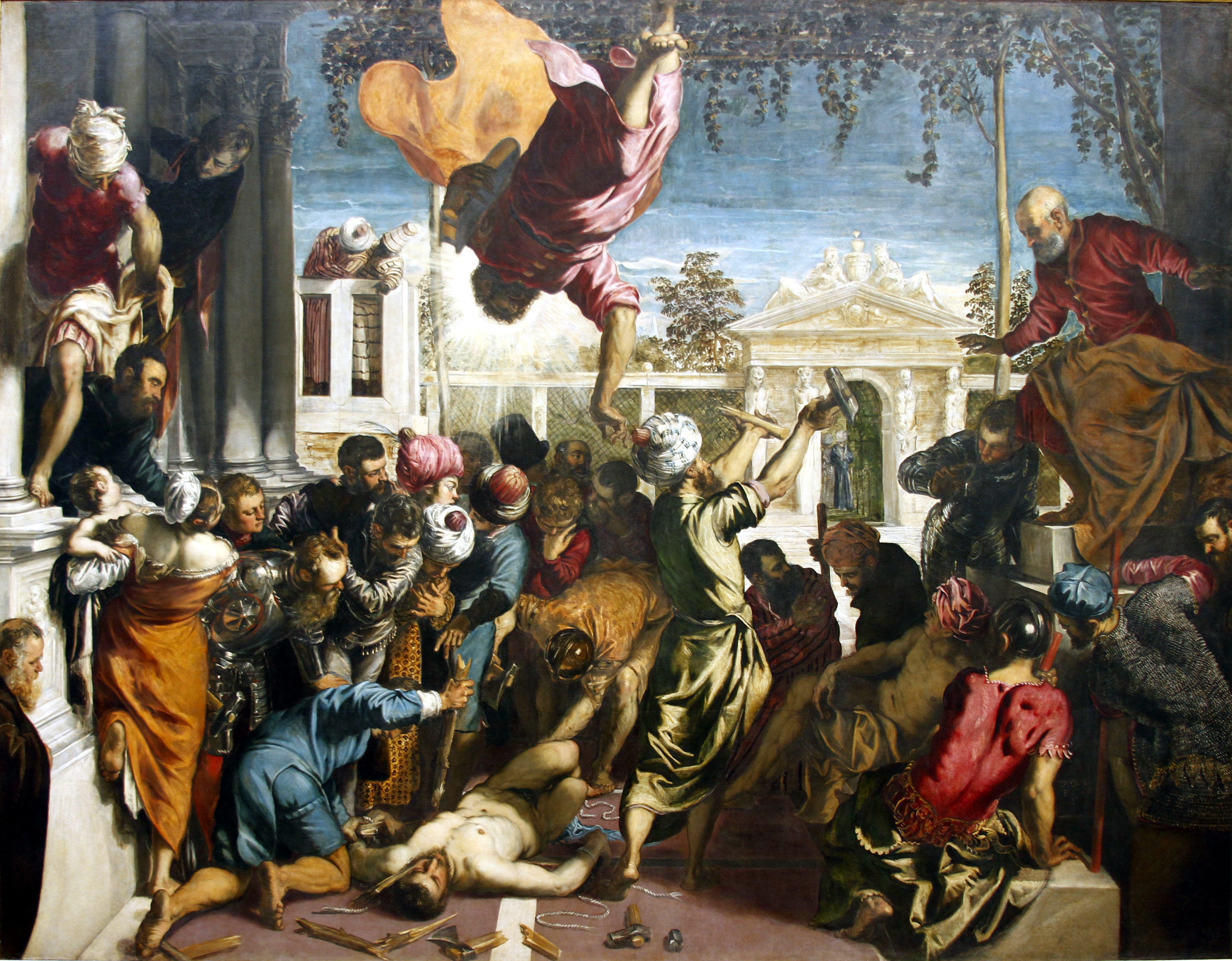 Miracle of the Slave